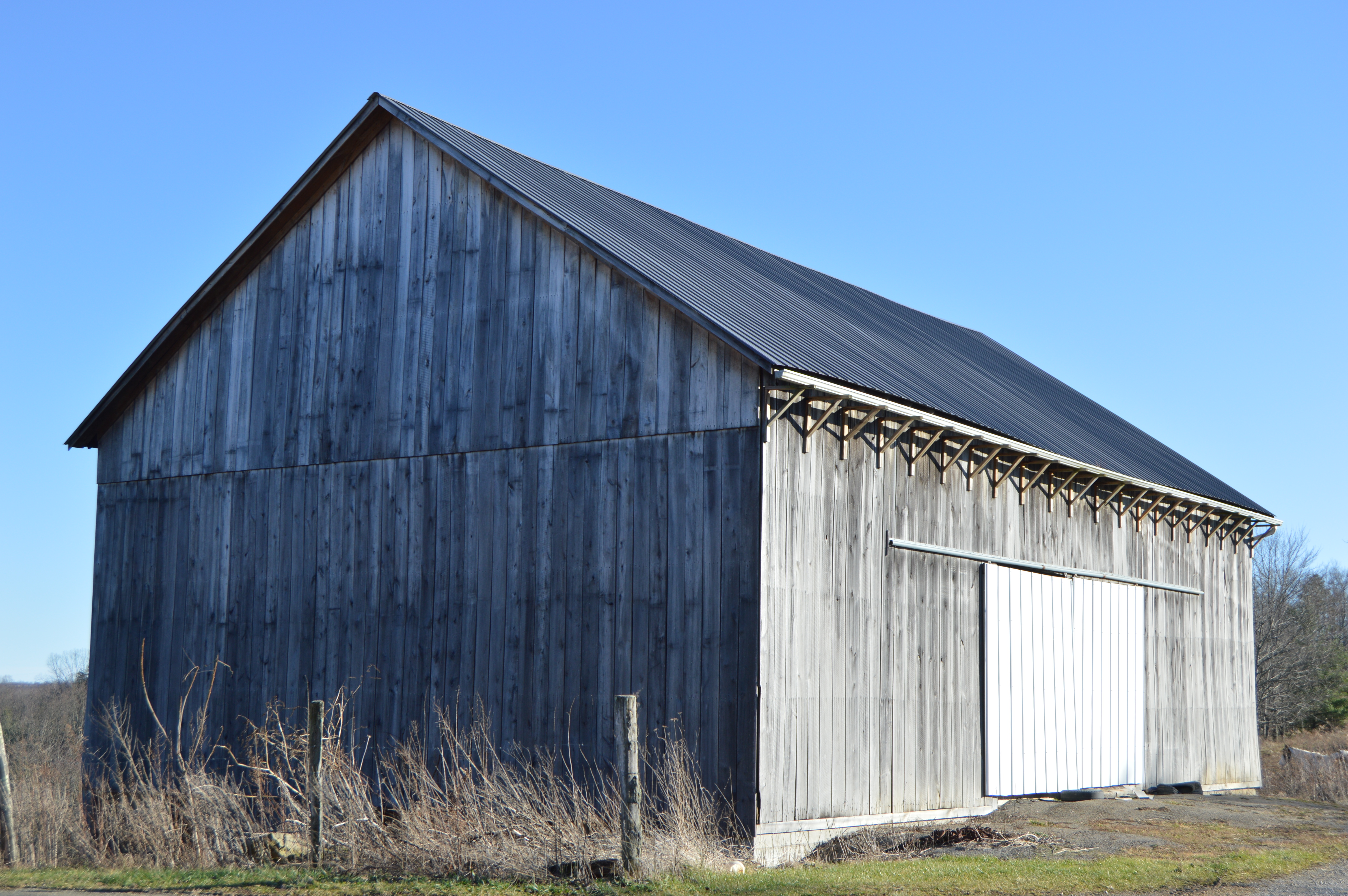 Northern and western sides of a side-gable bank barn on Flauhaus Road in northern Green Township, Monroe County, Ohio, United States.